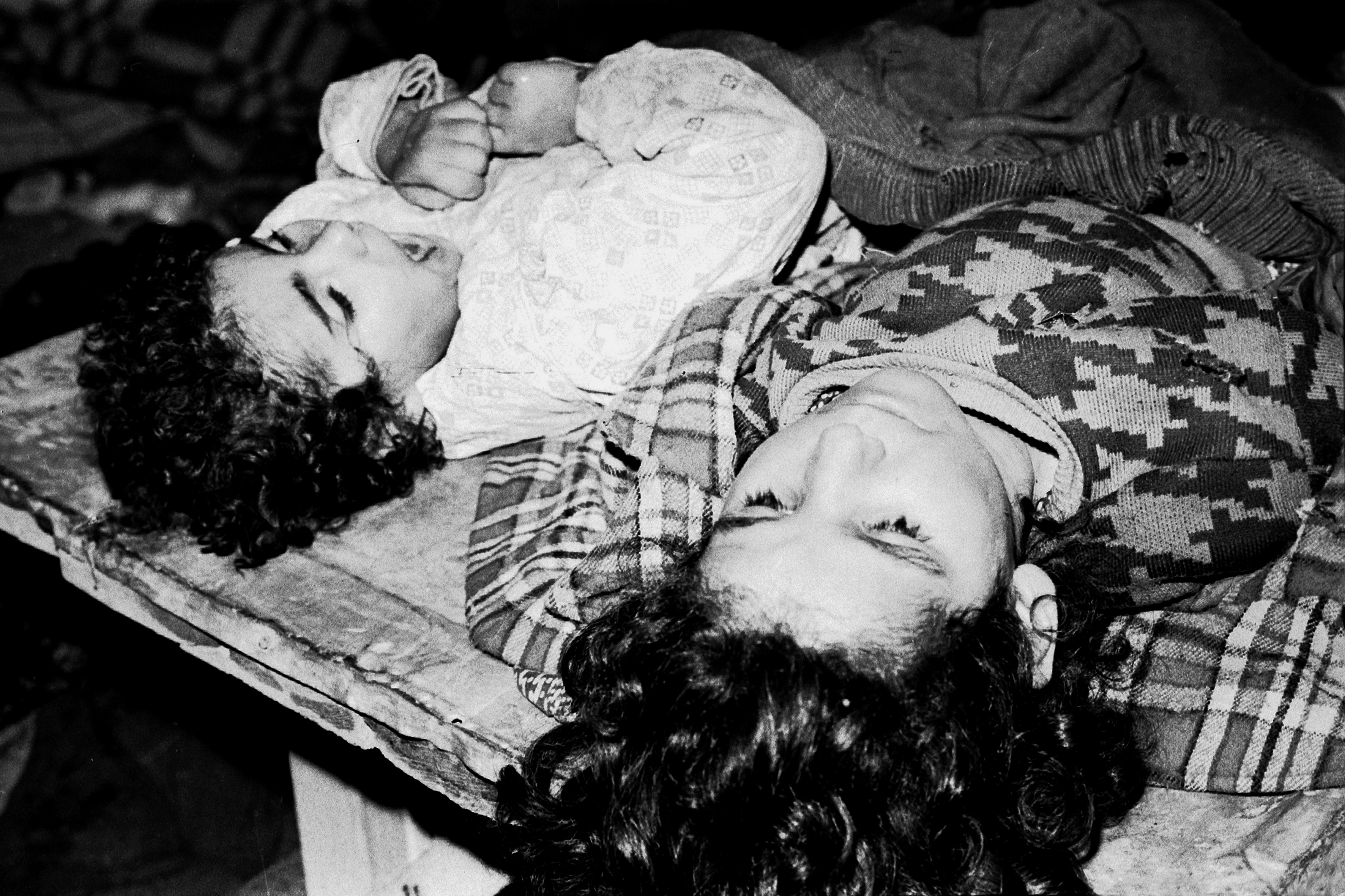 Murdered Azerbaijanian children in Khojali massacre. Agdam.